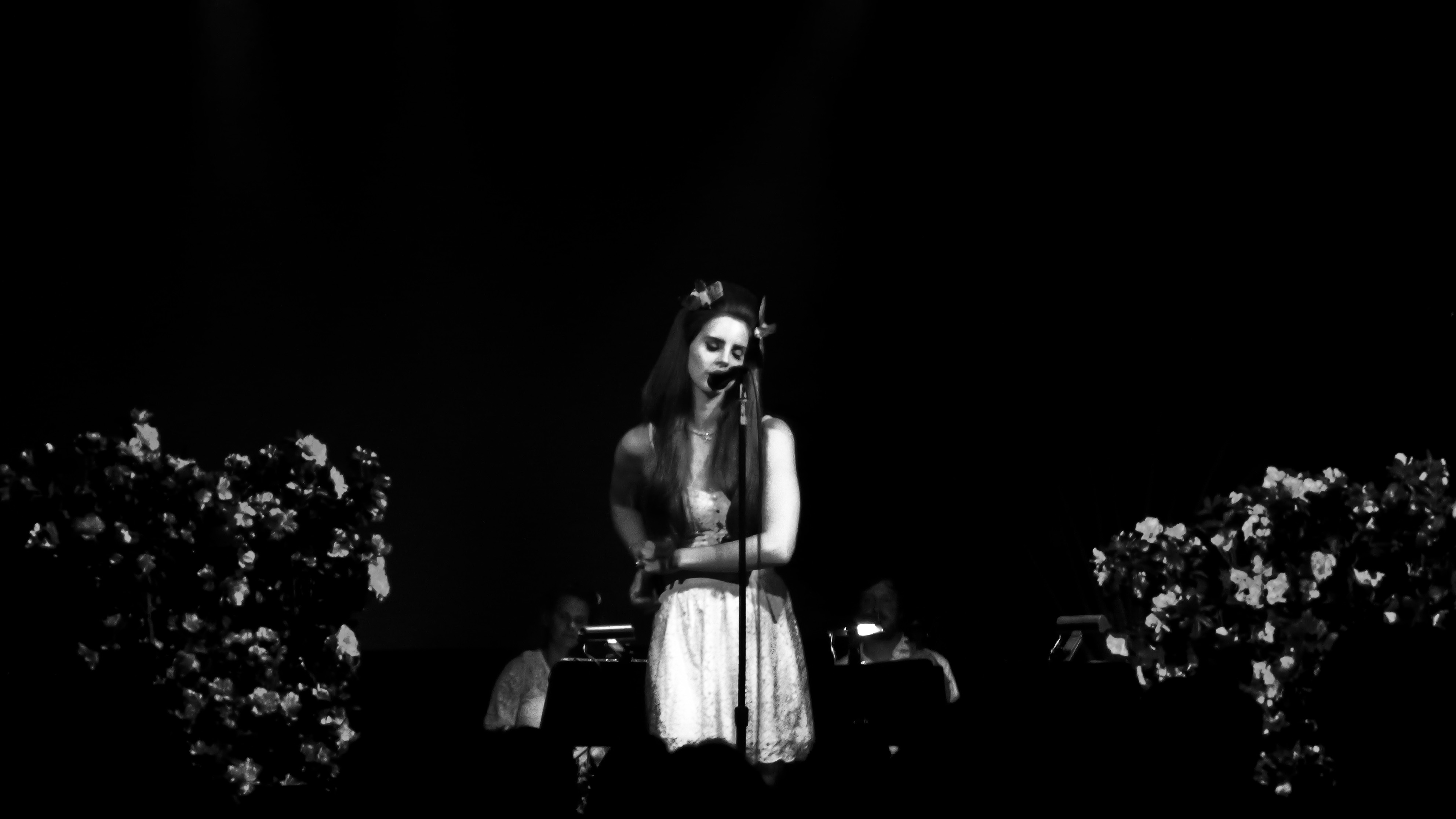 Lana Del Rey performing at Irving Plaza